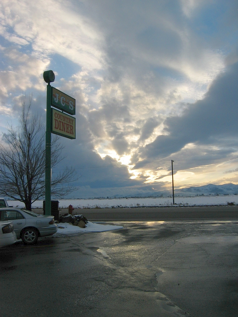 Tremonton diner at sunset, Utah.